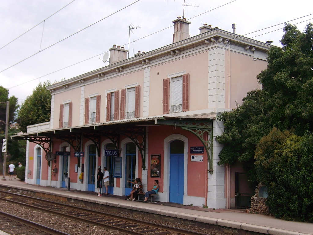 Fréjus Rail Station (fr)